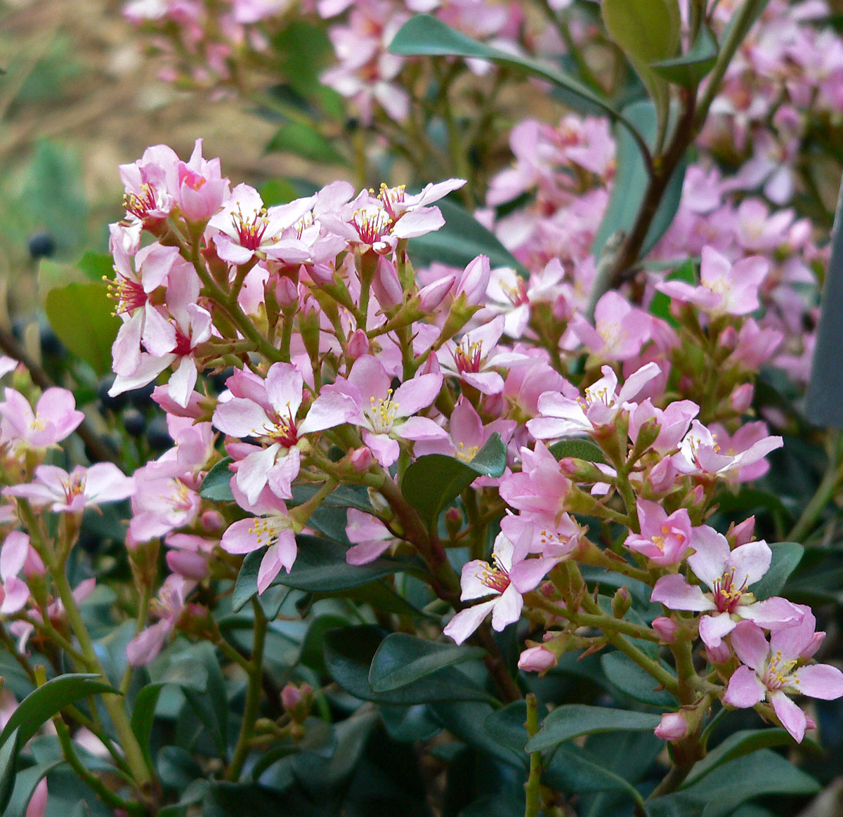 Rhaphiolepis indica cv. 'Ballerina' at the Springs Preserve garden, Las Vegas, Nevada